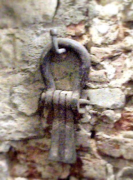 "Wilson bolt", "St Peter's Keys" or "Dovetail Lewis". An iron device for lifting blocks of stone. Photographed inside the dome of Duomo, Firenze